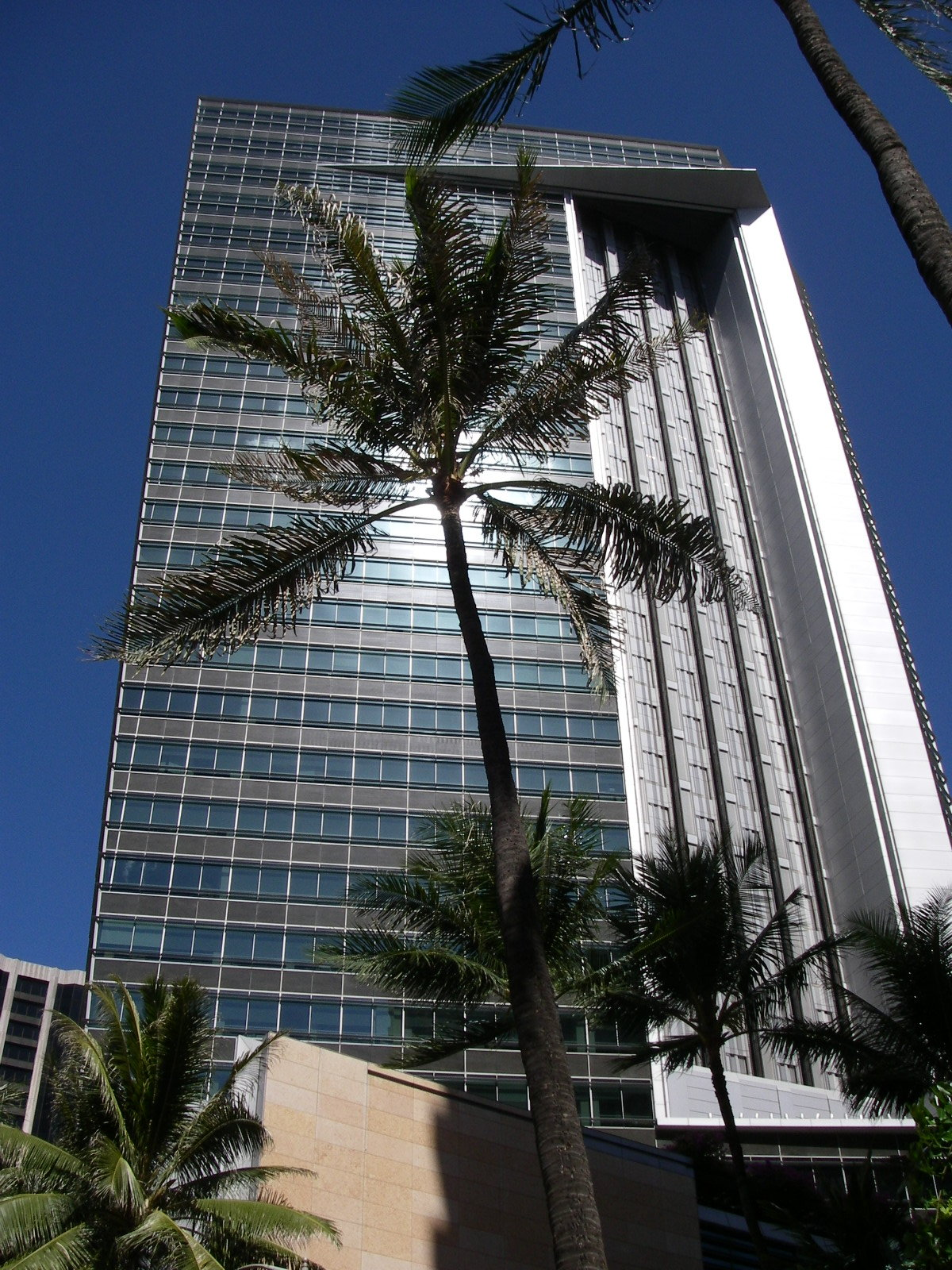 Picture of the First Hawaiian Center tower on Bishop Street in downtown Honolulu, Hawaii, USA, from the Makai side (ocean side, south side)